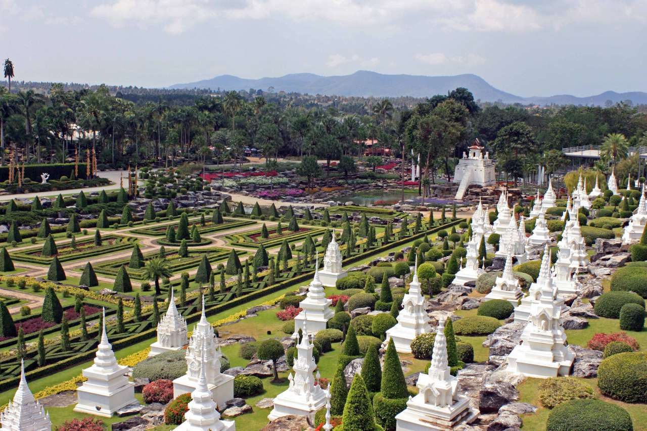 Nong Nooch botanical garden, French garden, Thailand